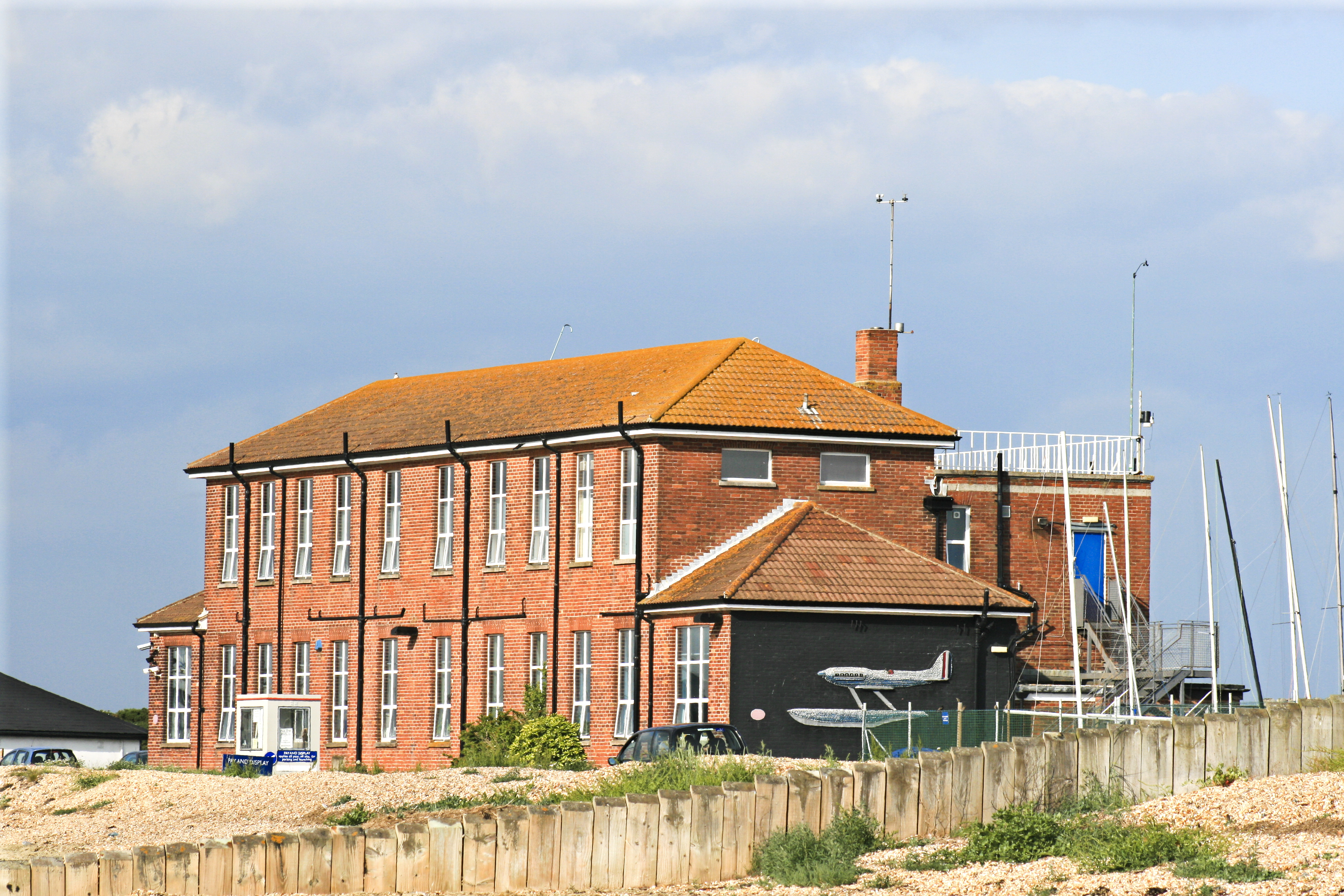 The officers mess at the former flying boat and seaplane base of RAF Calshot, Hampshire, UK. At the extreme left corner of the building (known as Houston House) shown on this image is a Pink Plaque that records that in 1931 Lady Houston funded a 1931 British entry in the Schneider Trophy that was won by the Supermarine S6B designed by R.J.Mitchell who later designed the Spitfire. The building served as an officer's mess and the station headquarters until 1961 when RAF Calshot was closed and ownership of the site passed to Hampshire County Council. The illustration in pebbledash and black render on the nearest end wall is of the Supermarine S6B by a local artist. Image uploaded by me User:George.Hutchinson from a photograph taken by and supplied by Brian Burnell. The photograph should be attributed to Brian Burnell in this format. Wikipedia editors are reminded that the copyright remains with the photographer, and that the terms of the Creative Commons Attribution-ShareAlike 3.0 Unported Licence that allow editors to reuse this image apply to Wikipedia editors also, as they do to other reusers of this image. Breaches of the licence terms are not only unlawful, but are also antisocial, in that breaches discourage photographers from making their images freely available to everyone without payment. Non-Wikipedia users are requested to advise Brian Burnell of its use other than on Wikipedia